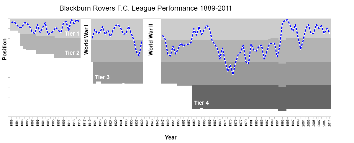 Chart showing the progress of Blackburn Rovers F.C. through the English football league system from the inaugural season in 1888–89 to 2010–11.